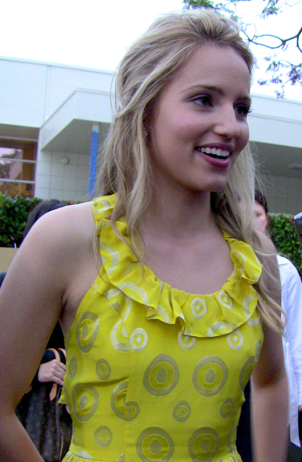 Actress Dianna Agron at premiere party of TV series Glee, Santa Monica, California. depicted person: Dianna Agron (age: 23.03)